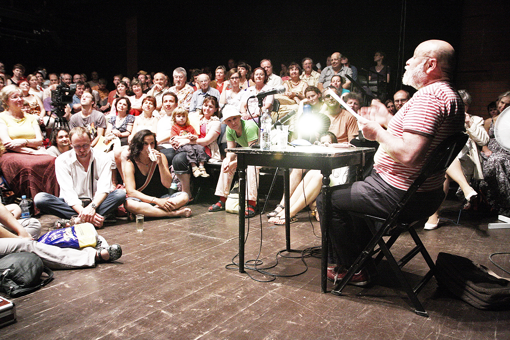 Arnost Goldflam, Authors' Reading Month 2010, Brno, Czech Republic, photo by David Konecny